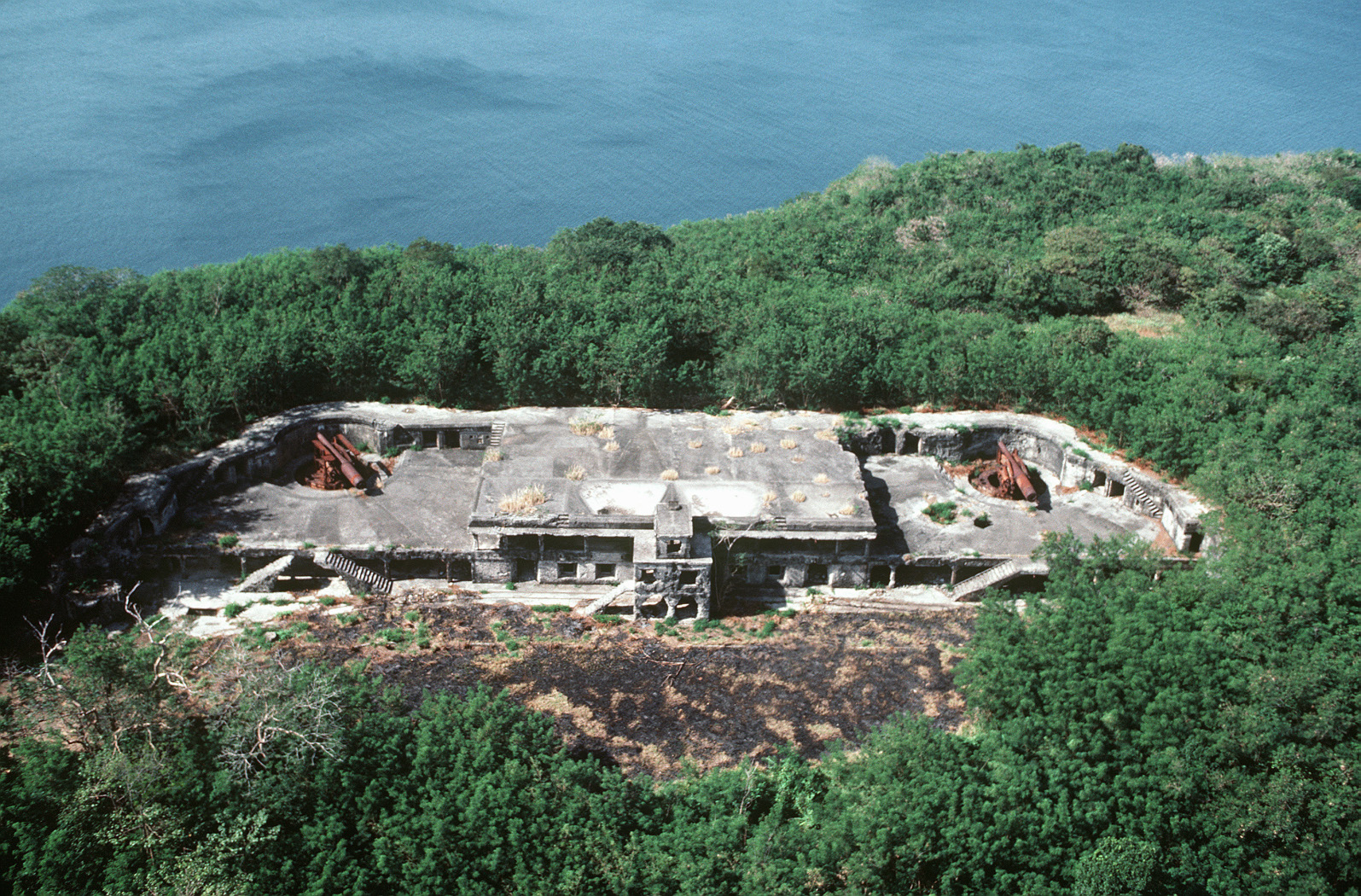 Aerial view of Battery Cheney, a World War II gun emplacement with two guns on Corregidor.